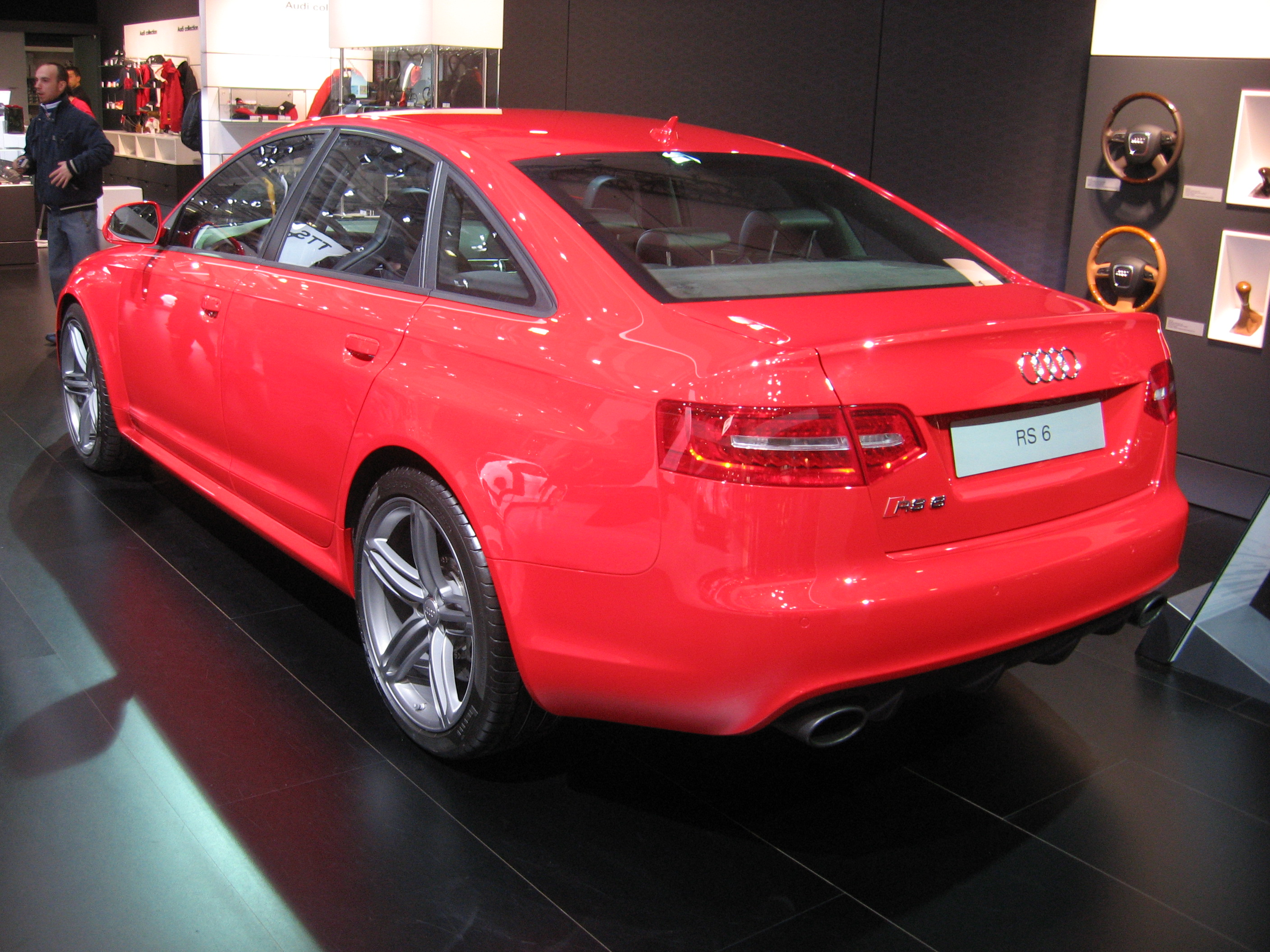 Subject: Audi RS6 C6 Date:December 14th, 2008 Event: Bologna Motor Show 2008 Place/Country: Bologna, Italy I release all rights in the public domain.